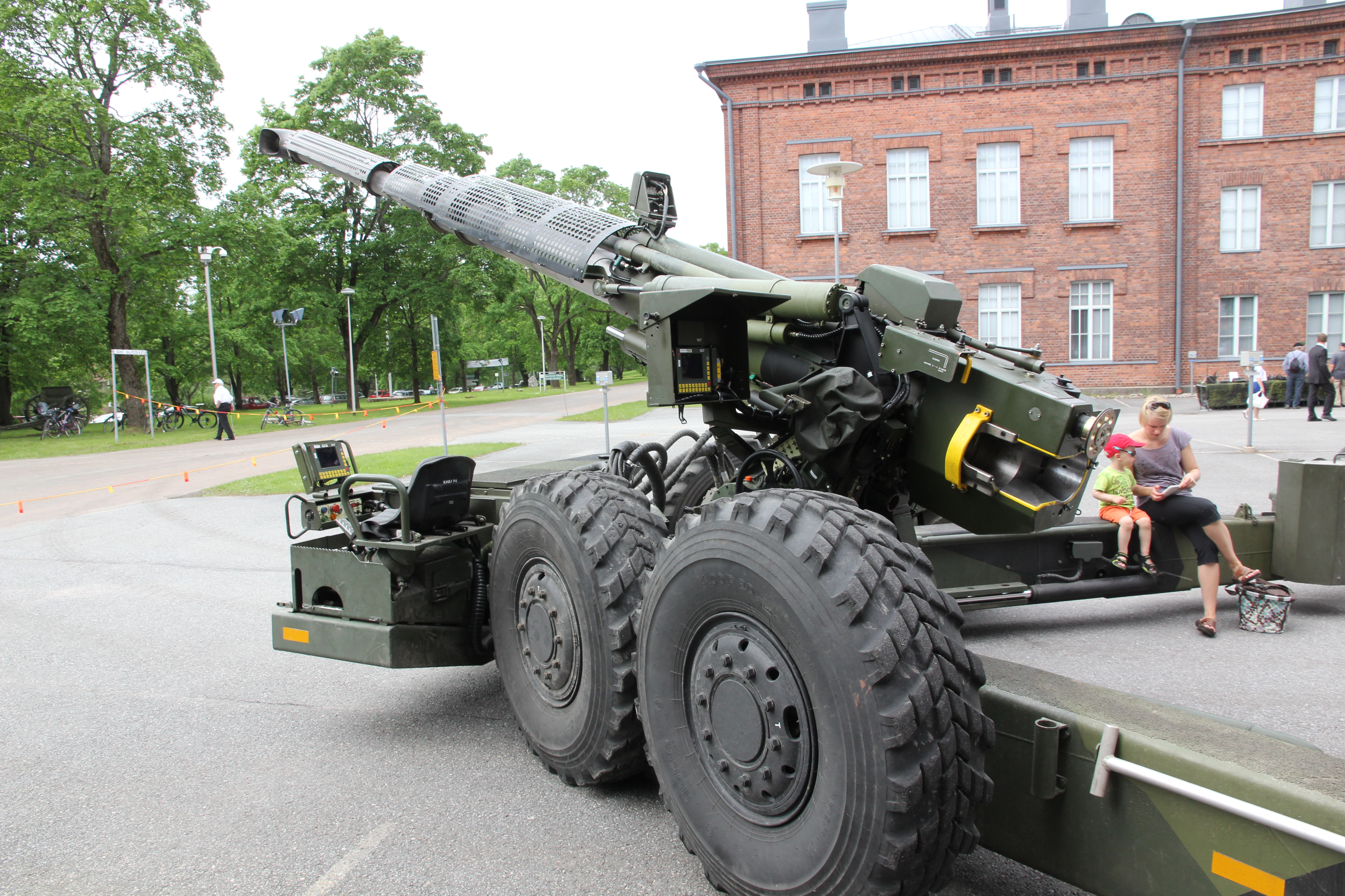 155 K 98 cannon on display during Finnish Defence Forces 2014 Flag day in Lappeenranta Rakuunanmäki.